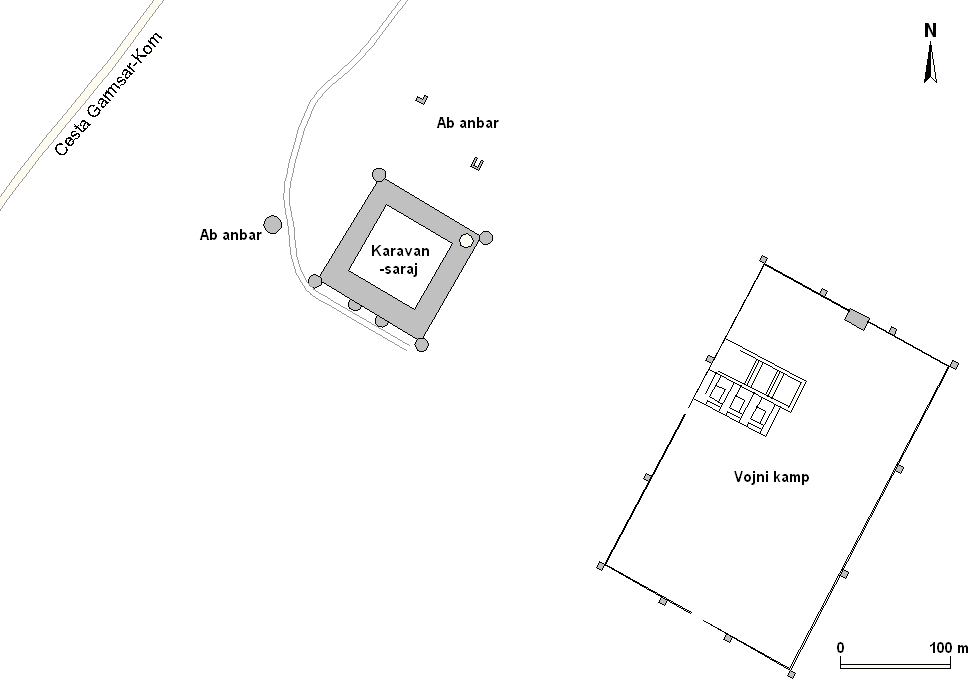 Wider plan of caravanseray Dair-e Gachin in Iran